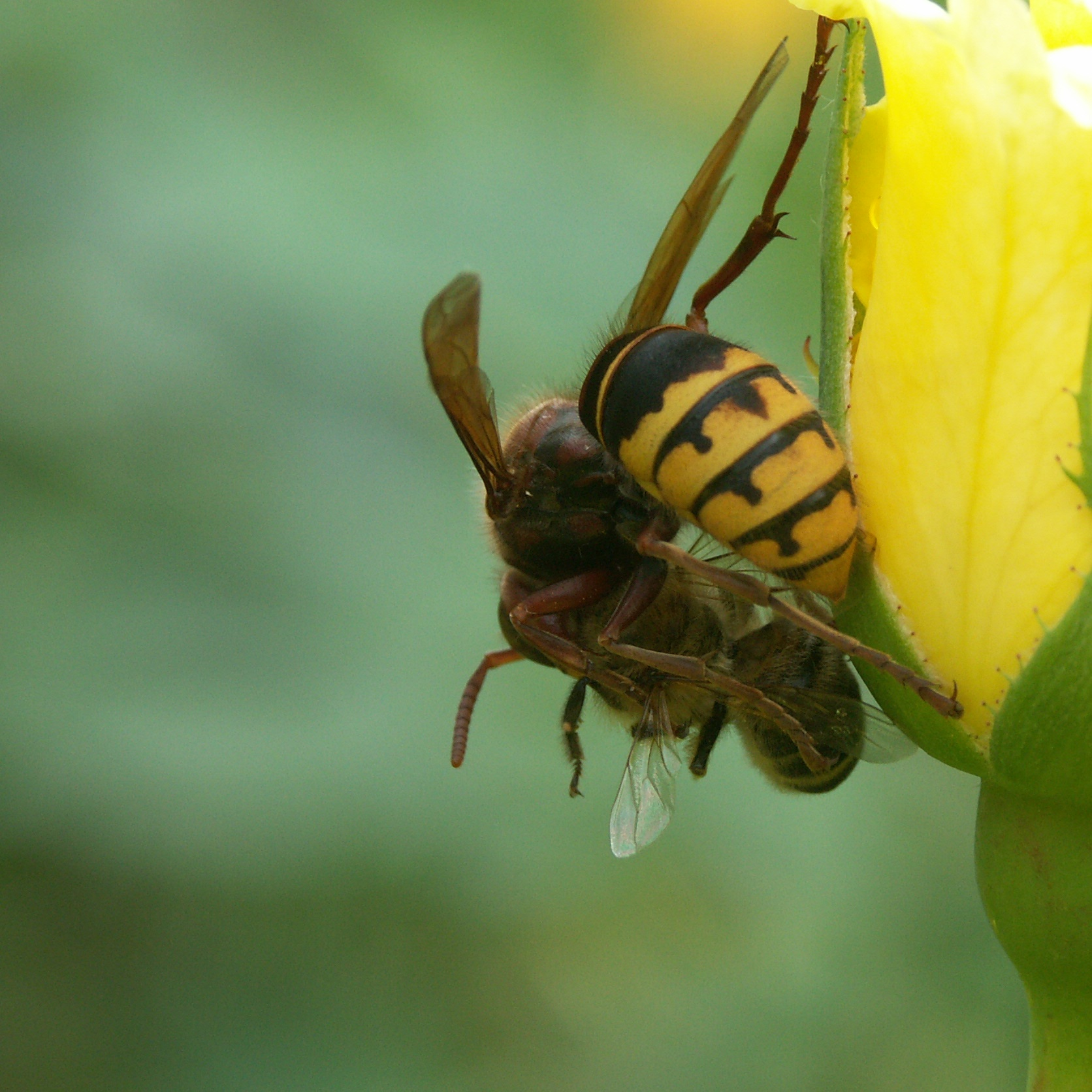 European hornet (Vespa crabro) killing a Western honey bee (Apis mellifera).